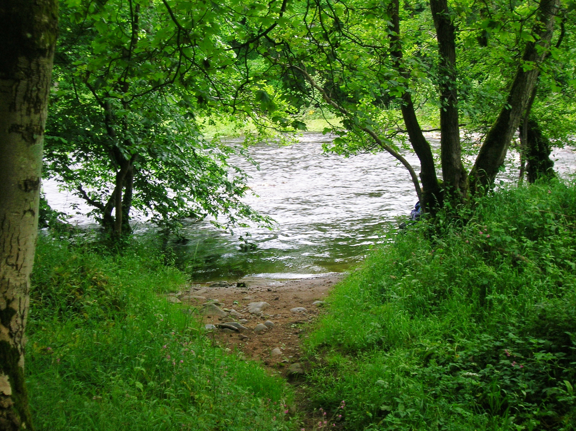 Ford over the River Ayr near Damhead, Kingencleugh, East Ayrshire, Scotland.